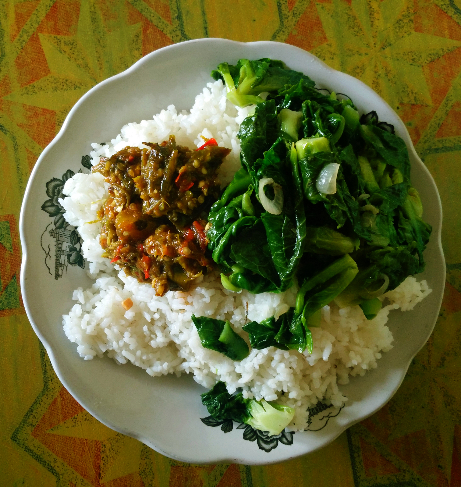 Easy and simple diet of Kepahiang.